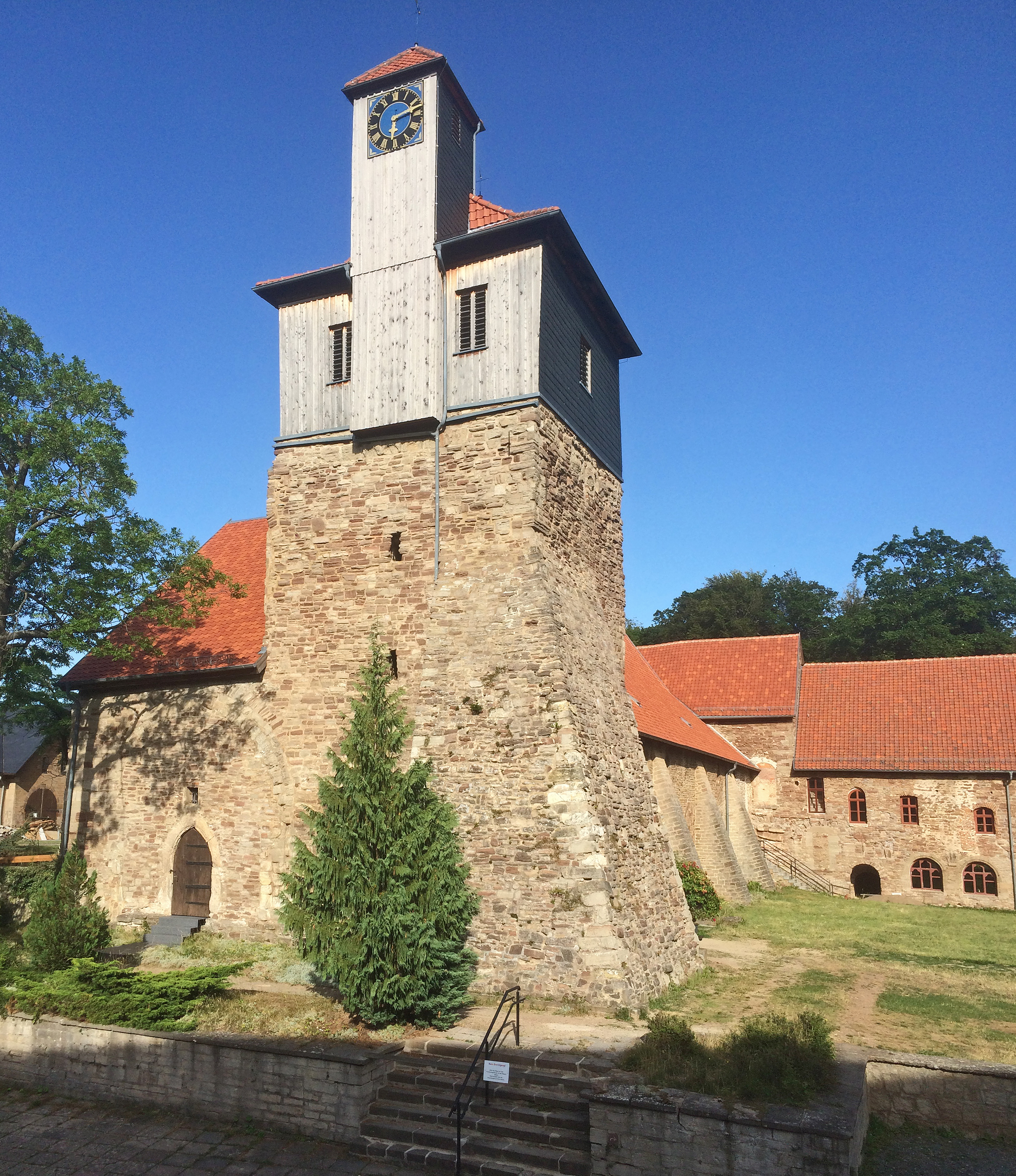 The church of Ilsenburg Abbey, seen from West.